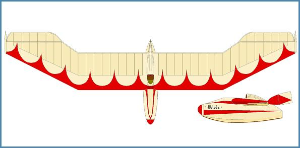 Kldiner/Bongel Weleda Flying Wing